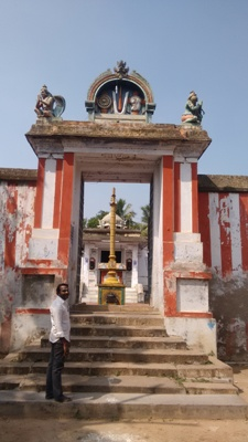 ThanjavurManikumdraperumaltemple தஞ்சாவூர் மணிகுன்றப்பெருமாள்கோயில்